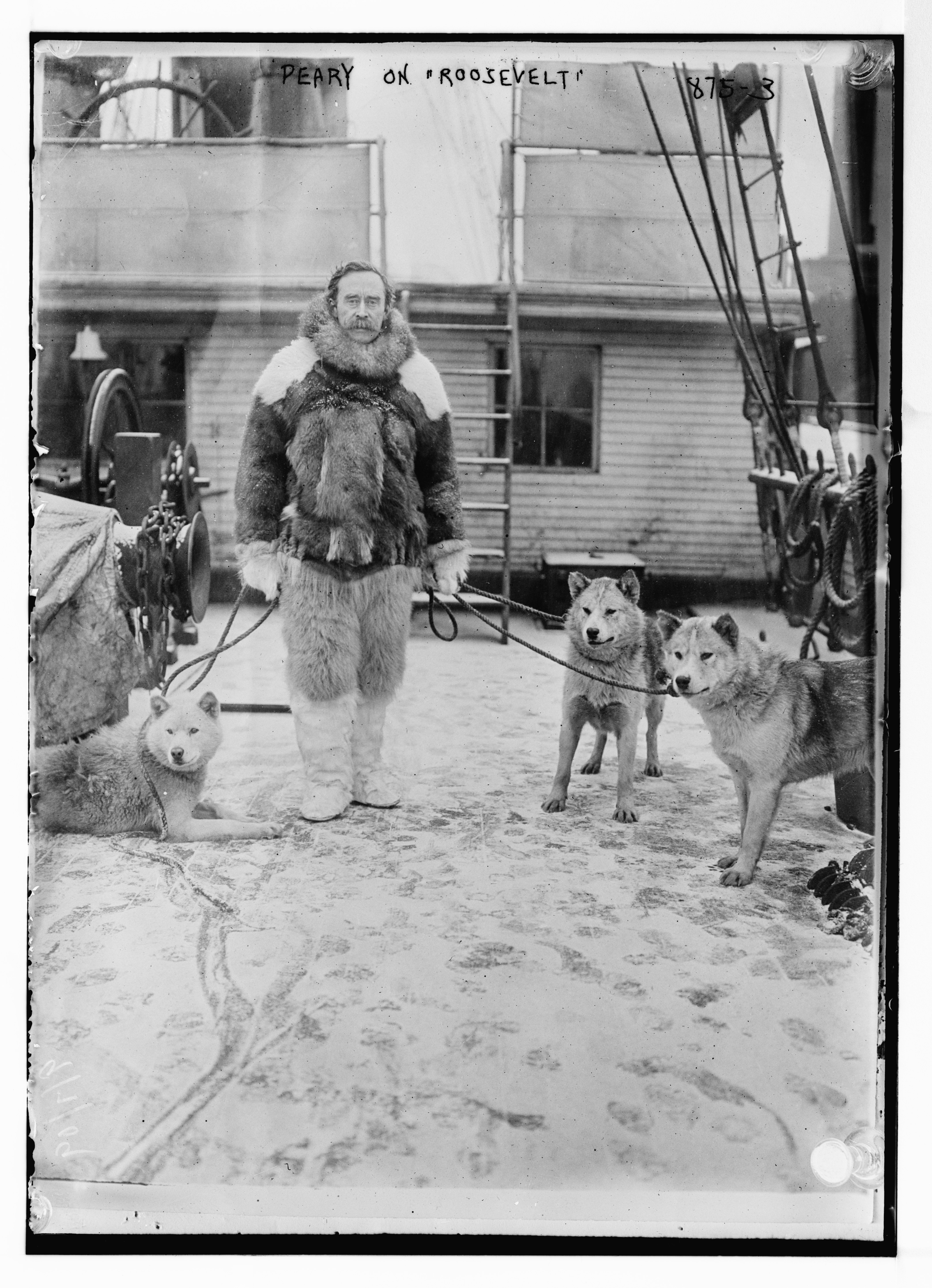 Title: Peary with dogs on deck of "Roosevelt" Abstract/medium: 1 negative : glass ; 5 x 7 in. or smaller.